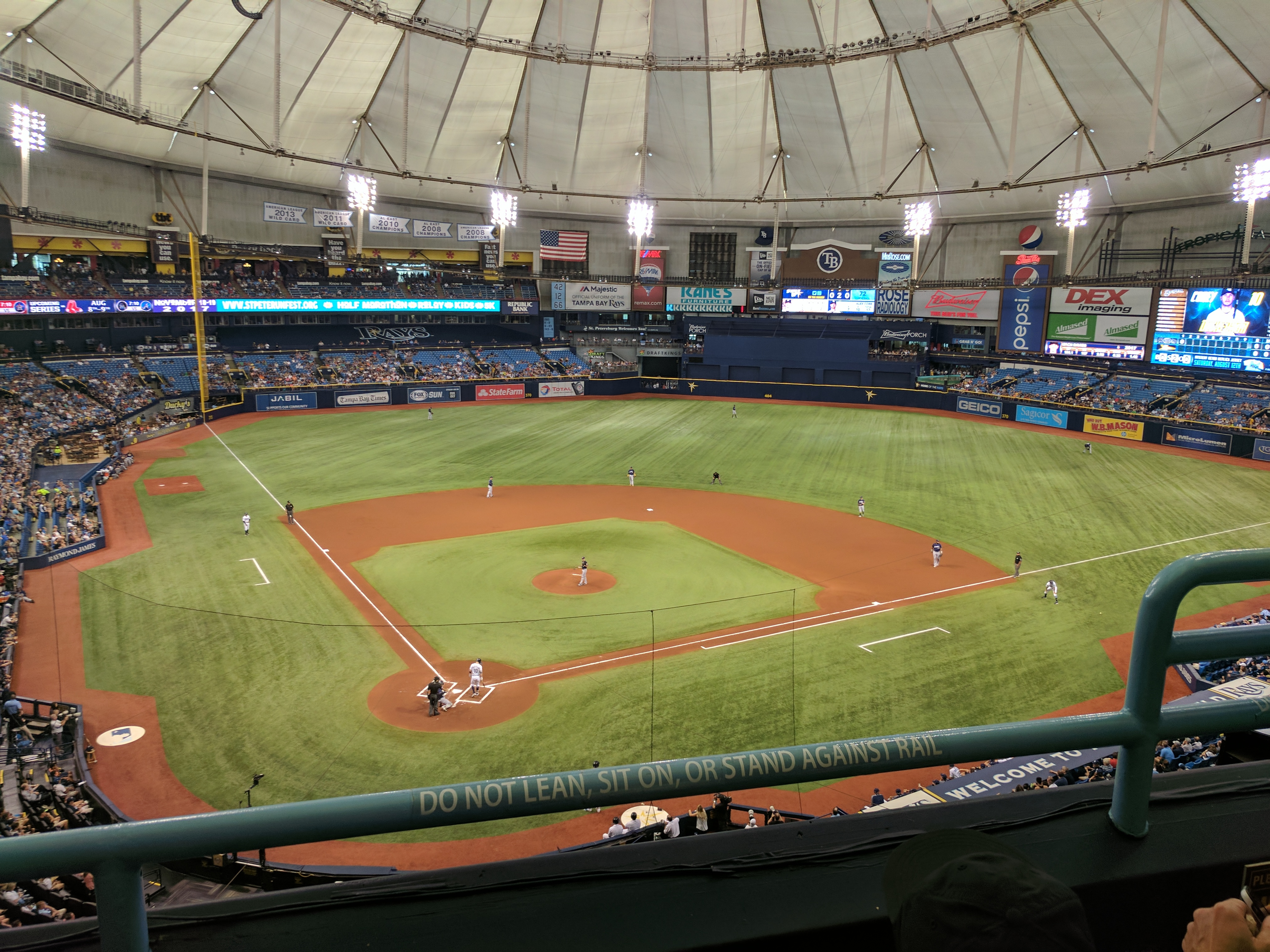 Zach Davies pitching